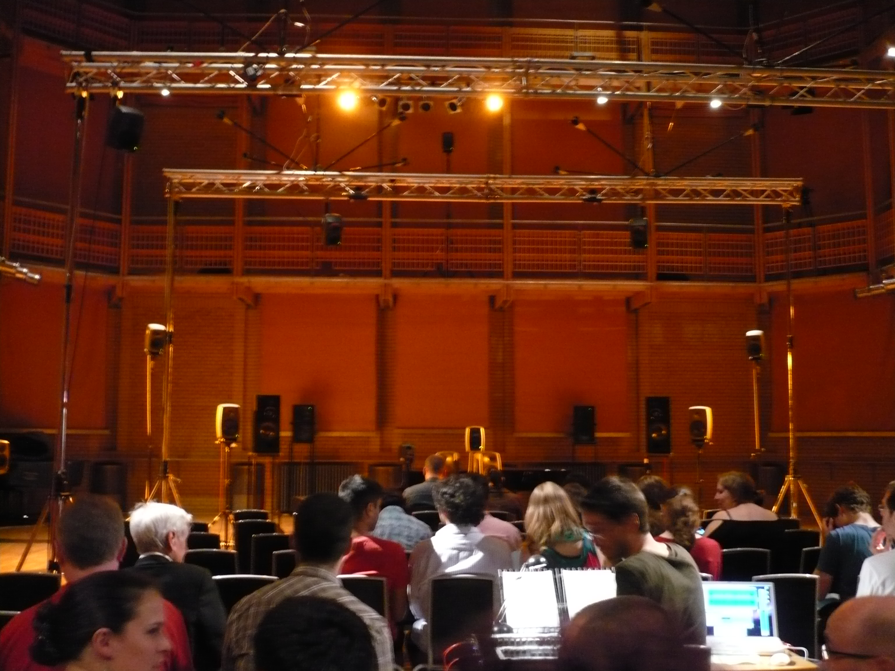 29 May 2009 BEAST Adventures in Time and Space At the CBSO Center, Birmingham, UK